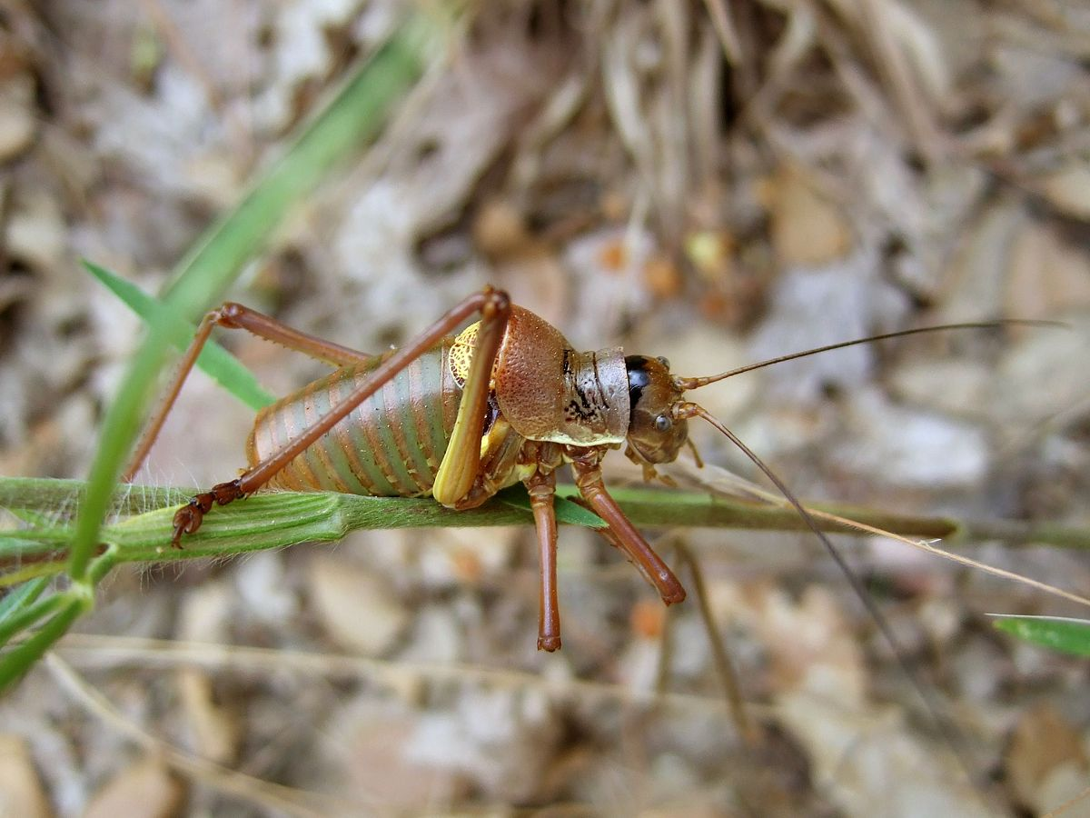 Ephippiger provincialis, male. France, Cote d'Azur, Massive des Maures, La Mourre